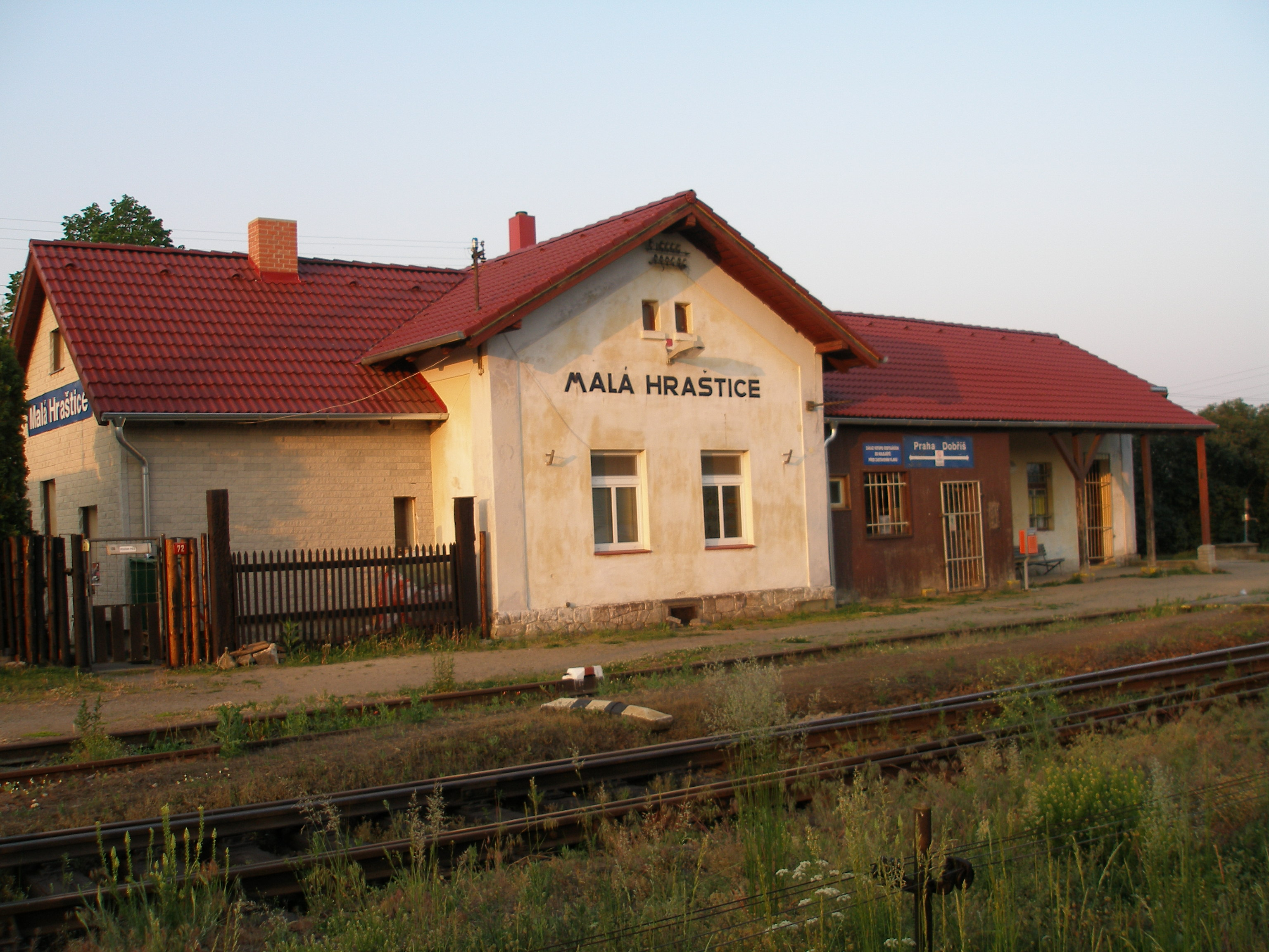 Railway station in Malá Hraštice